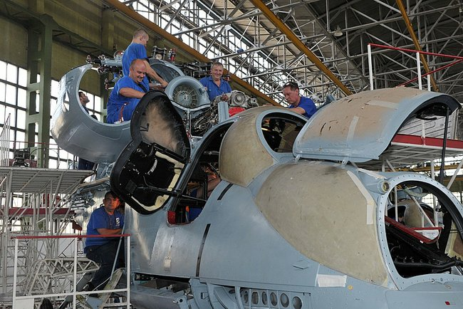 Rostvertol Helicopter Plant, Rostov-on-Don, Russia, August 22, 2013.